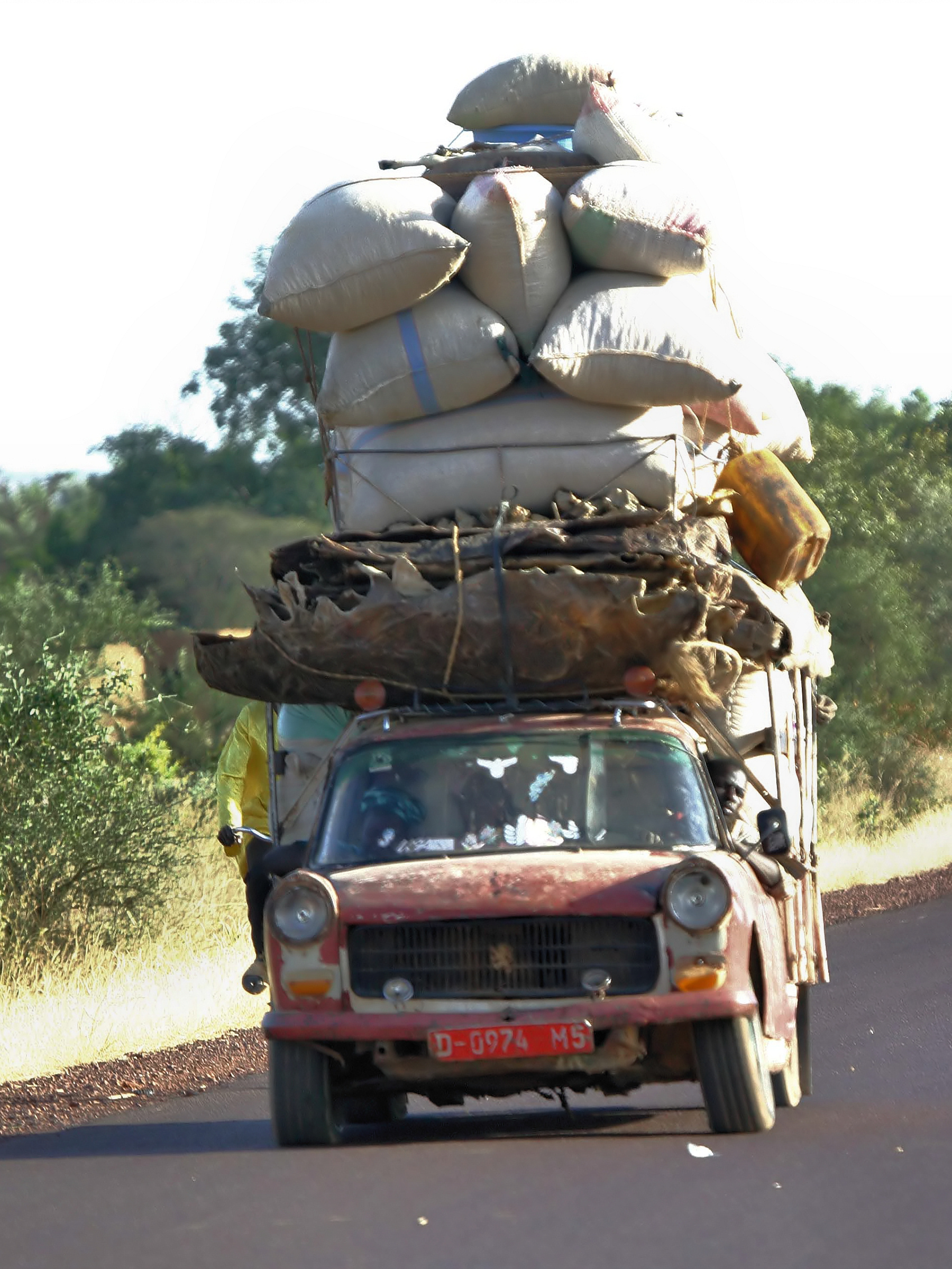 Dutch family on their way for their summer holidays ....